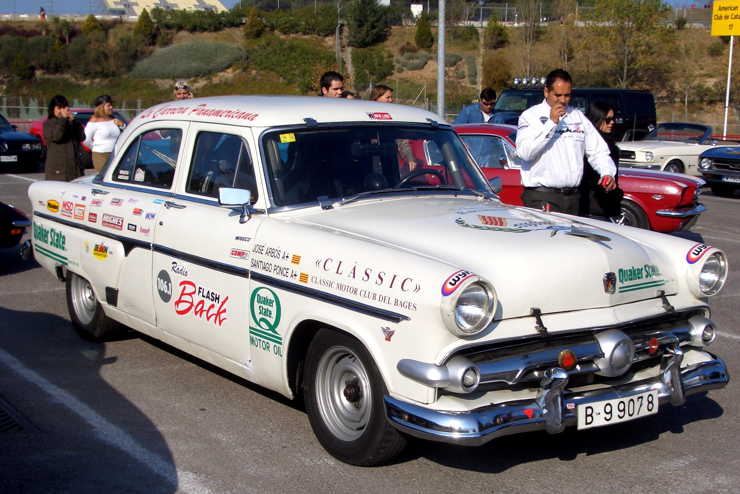 Ford 1954. Photo taken by me in Circuit of Catalunya (Barcelona - Spain) on 25th November 2007. Adriano from it.wiki. Nice photo 1954 Crestline Note: simpler rear fender trim suggests Customline